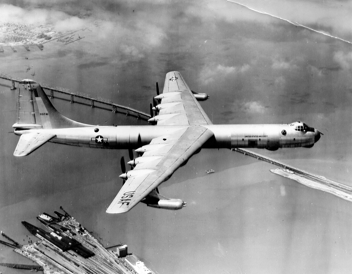 RB-36H Peacemaker of the 72nd Strategic Reconnaissance Squadron, Heavy (51-13741) flying over San Francisco Bay, 1954 (USAF Photo). The Port of Oakland can be seen below as well as the Oakland Bay Bridge.